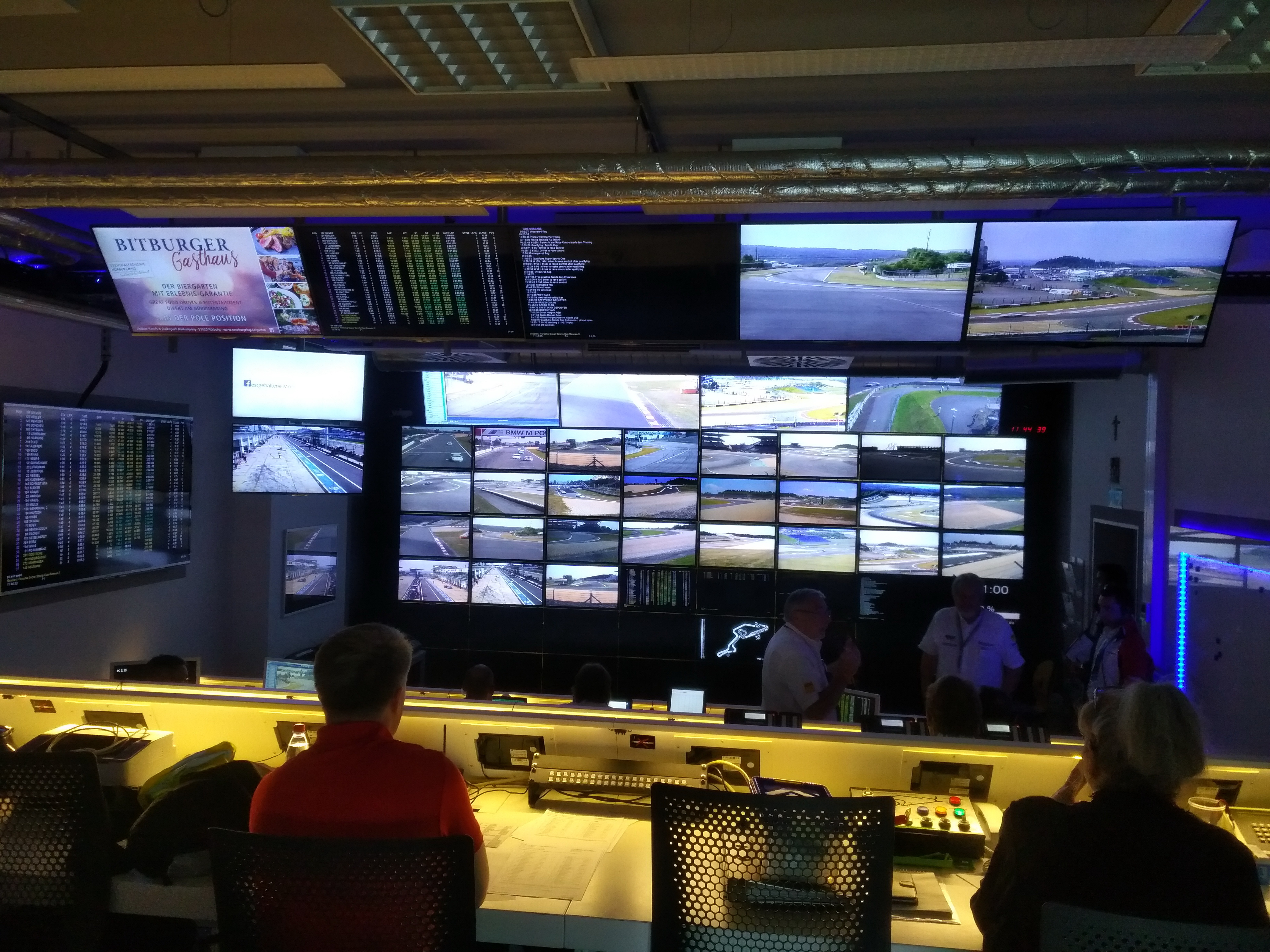 Race control room from the Nürburgring on 22.07.18 during the Porsche Sports Cup Germany.